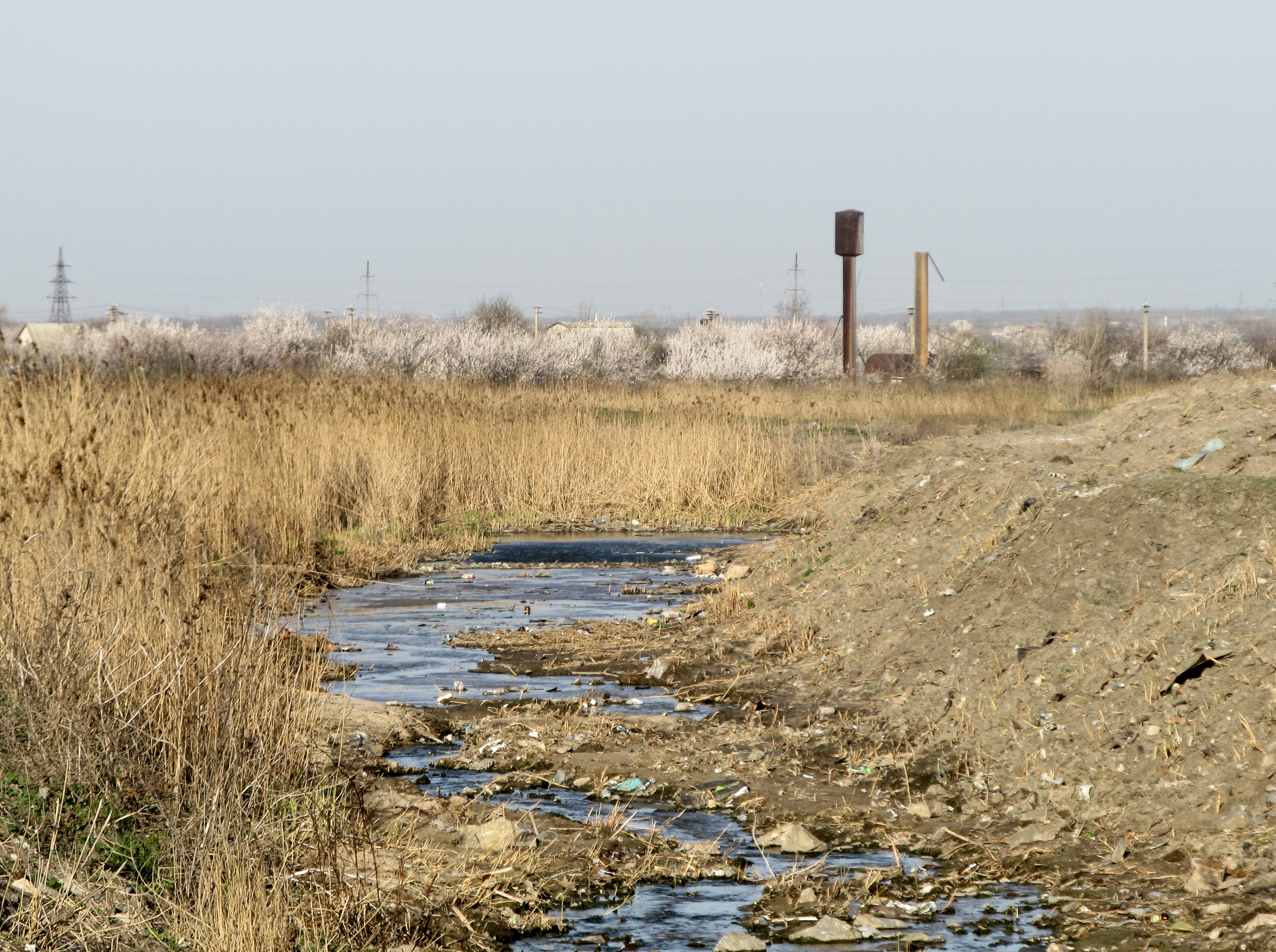 Kiziyarsky stream (Melitopol, Zaporizhia Oblast, Ukraine).